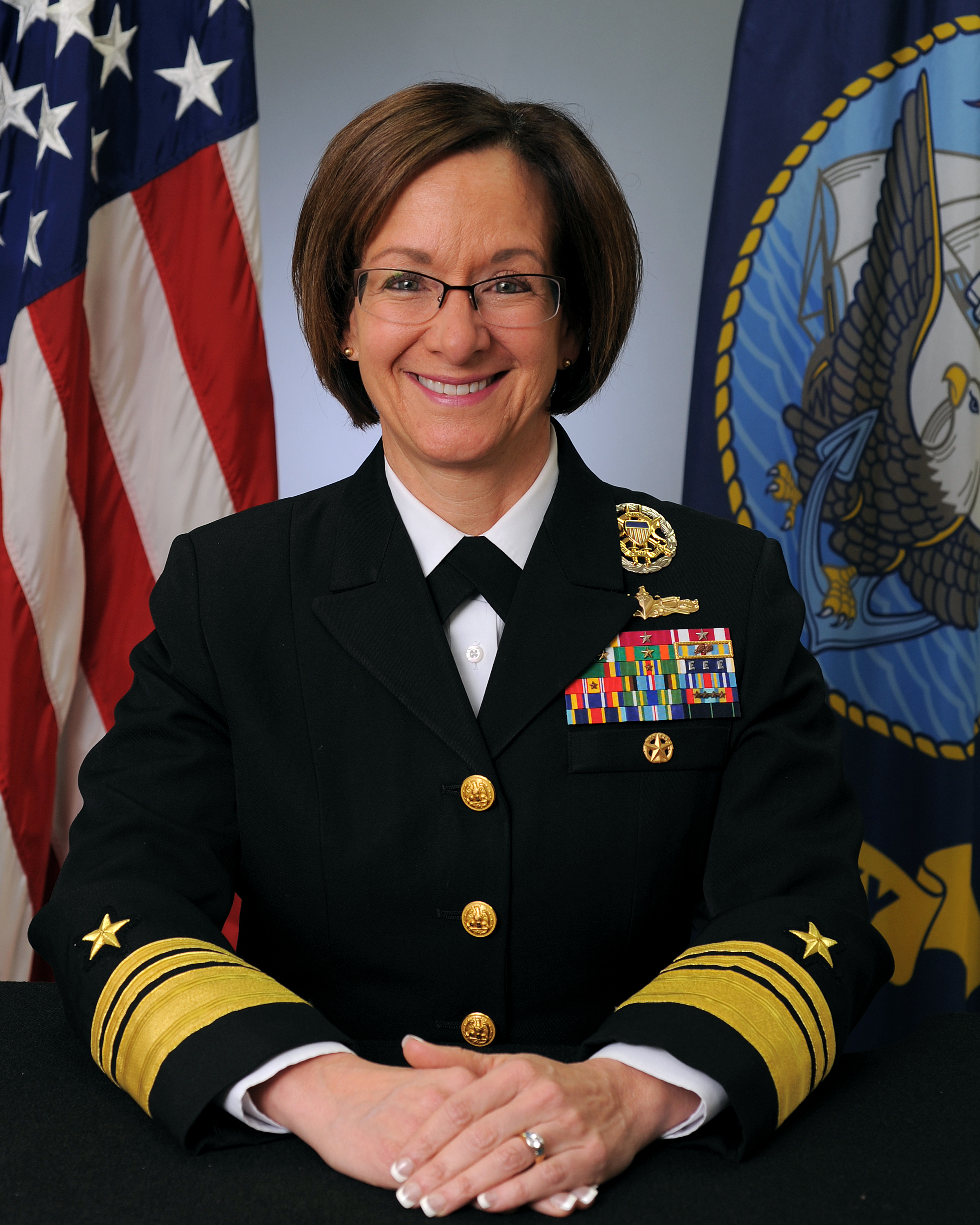 Vice Admiral Lisa M. Franchetti Commander, U.S. 6th Fleet Commander, Naval Striking and Support Forces NATO Deputy Commander, U.S. Naval Forces Europe Deputy Commander, U.S. Naval Forces Africa Joint Force Maritime Component Commander Europe